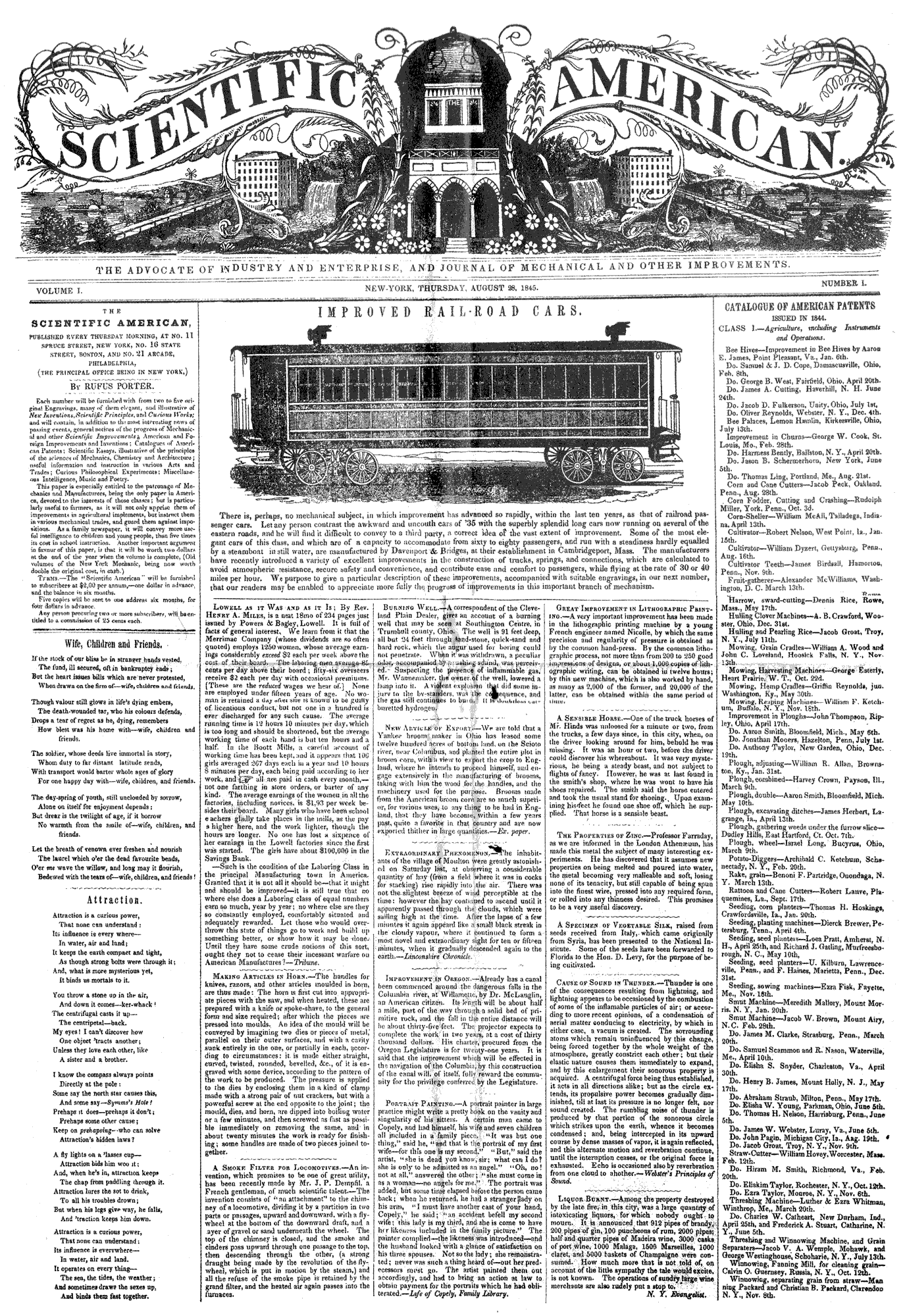 Front page of the first "Scientific American" issue (1845 aug 08)